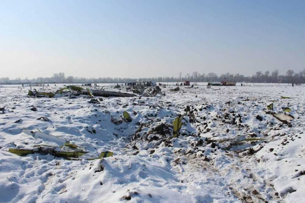 SCAT Airlines Flight 760 （UP-CJ006） crash site